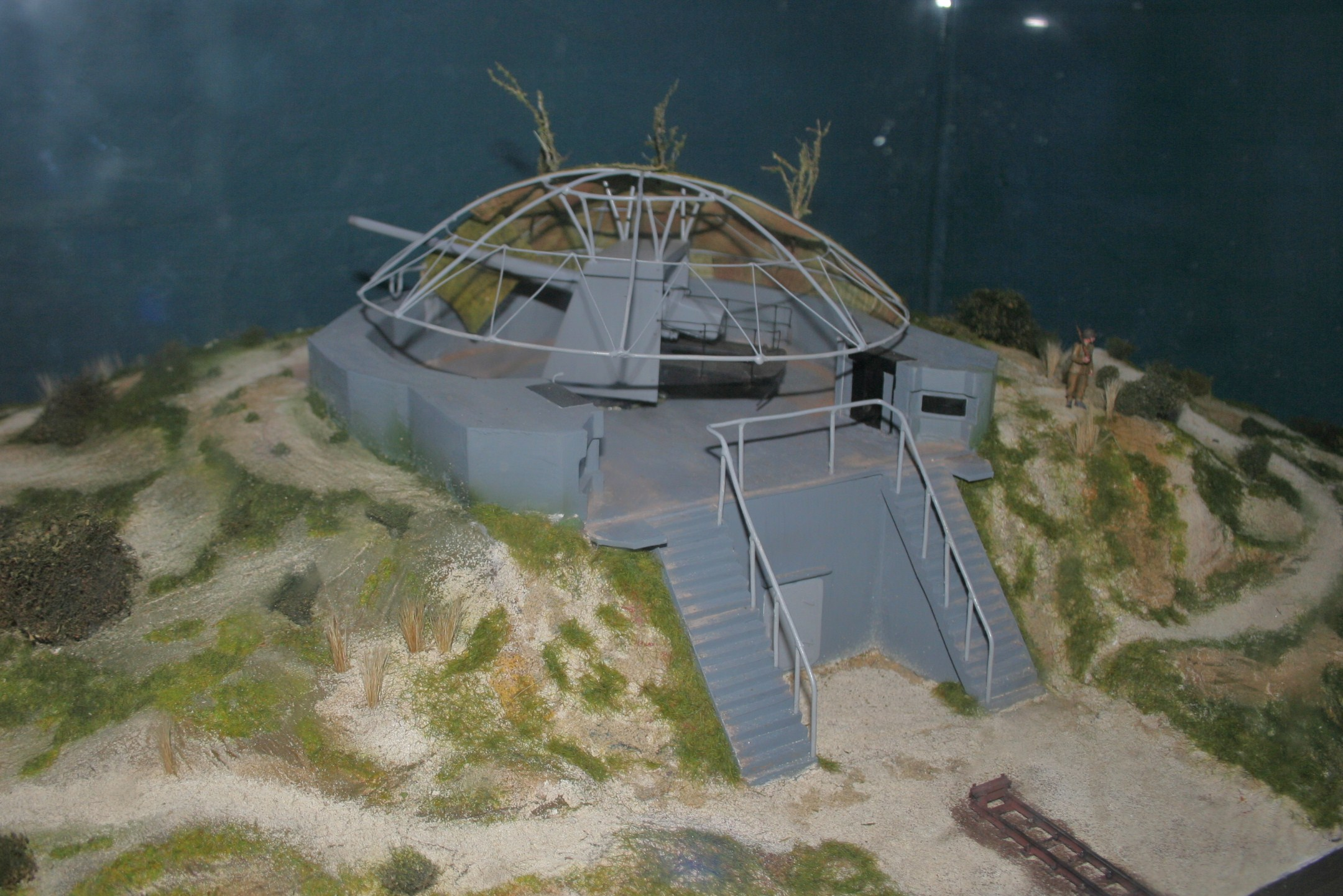 Collections of Museum of Coastal Defence.